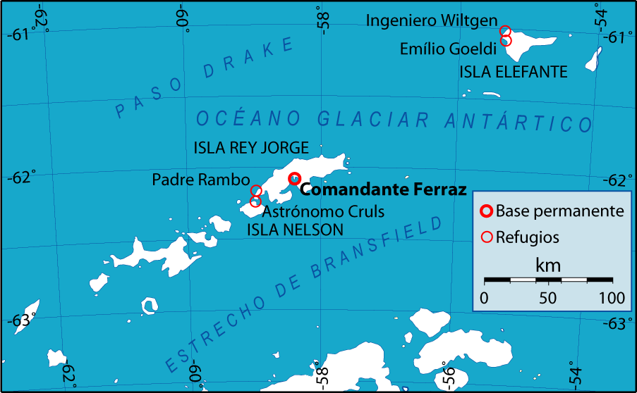 Mapa de ubicación de la base y refugios antárticos de Brasil en las Islas Shetland del Sur. Location map of antarctic station and refugees of Brazil in South Shetland Islands, spanish language.